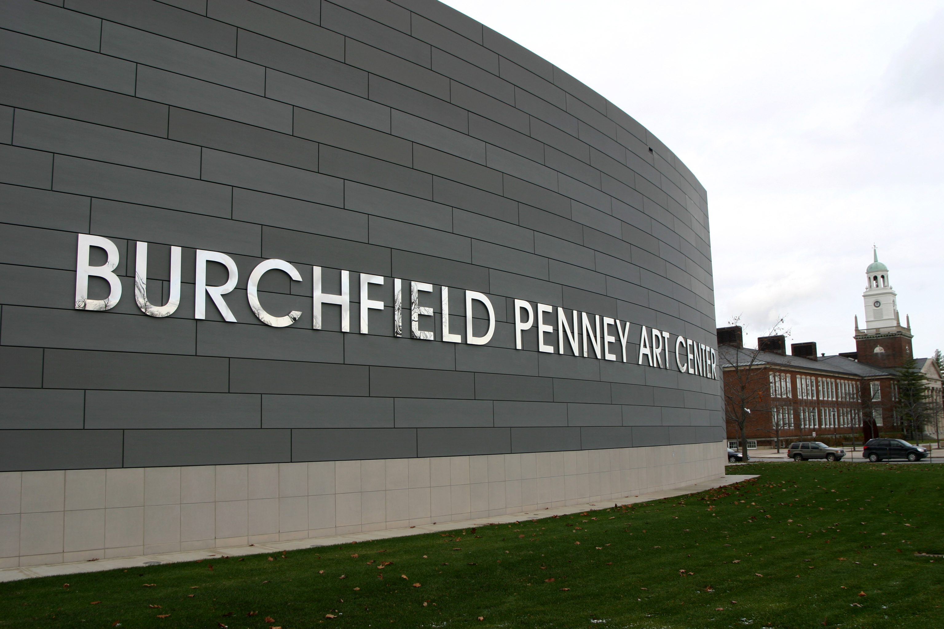 This is a picture of the Burchfield-Penney Art Center located on Buffalo State's campus in Buffalo, New York.